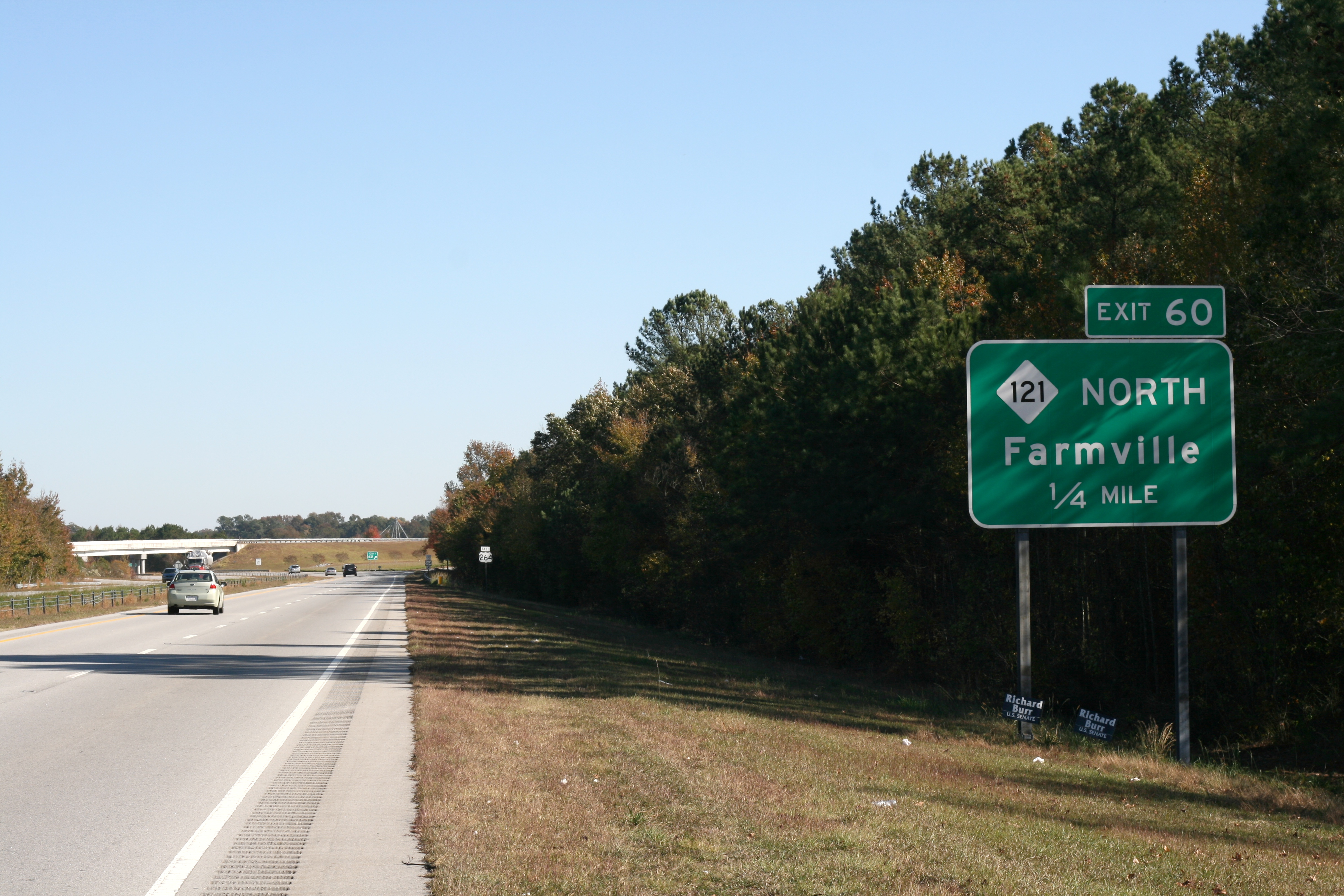 U.S. Route 264 east-bound approaching Exit 60 to Farmville, North Carolina. Note the yard signs advertising Richard Burr for U.S. Senate.